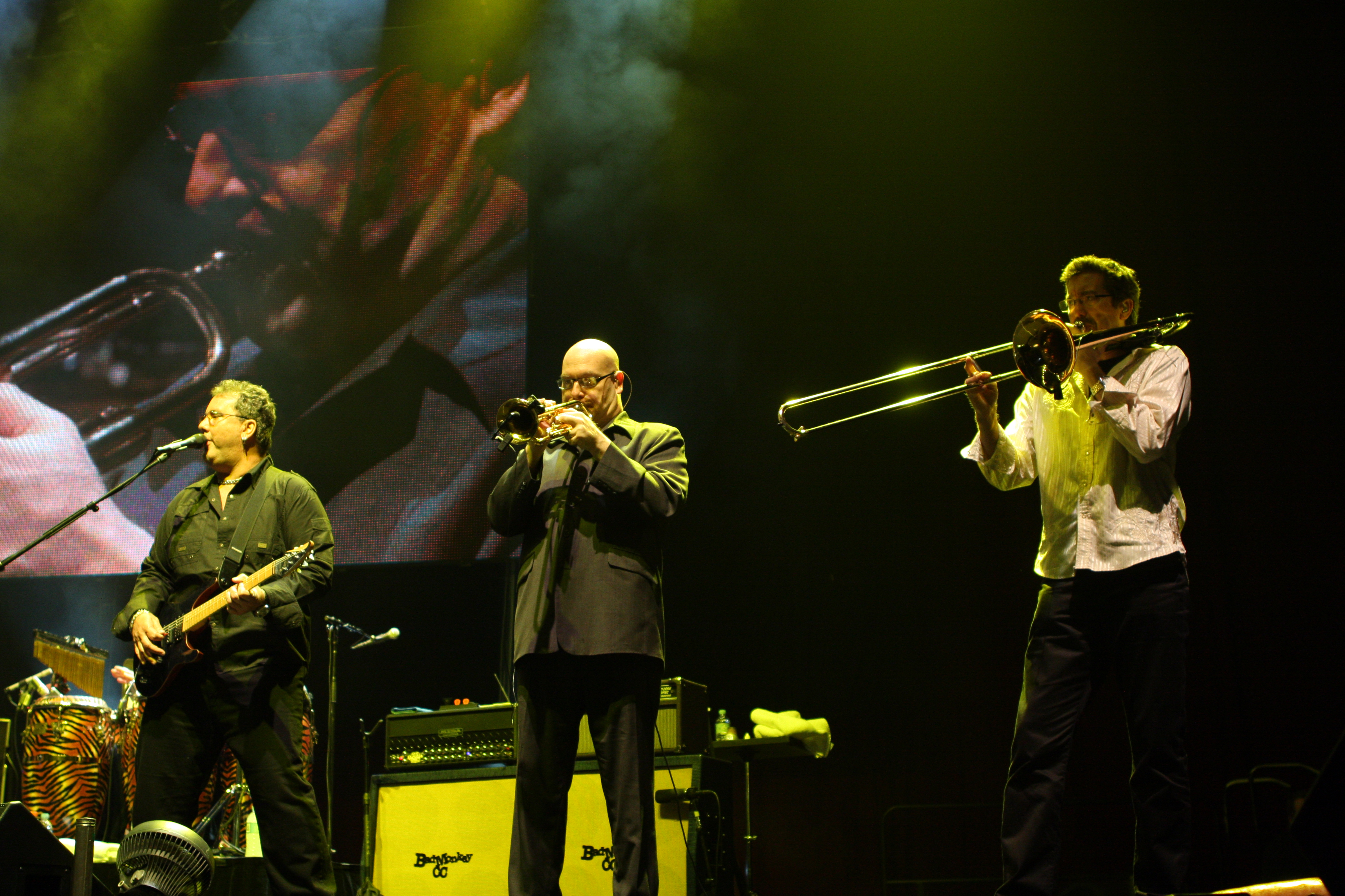 Santana Acer Arena